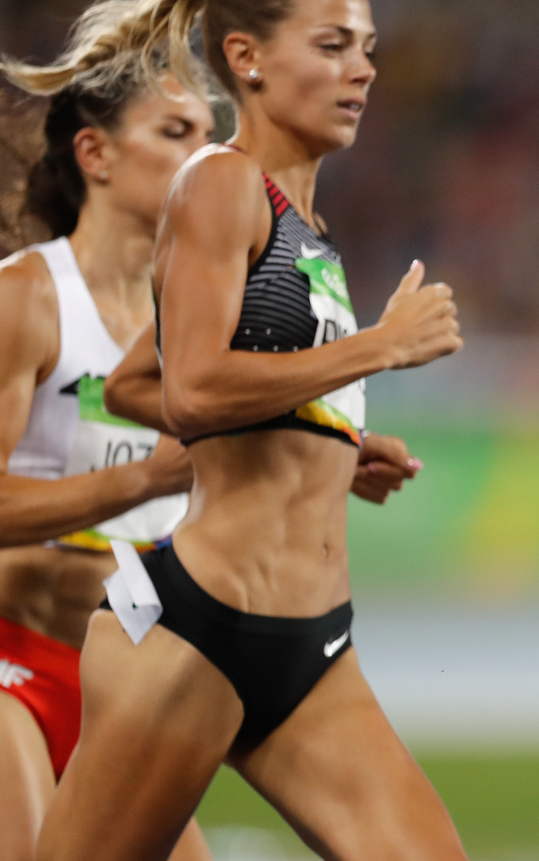 Rio de Janeiro - Semifinais dos 800m feminino nos Jogos Rio 2016, no Estádio Olímpico. (Fernando Frazão/Agência Brasil)